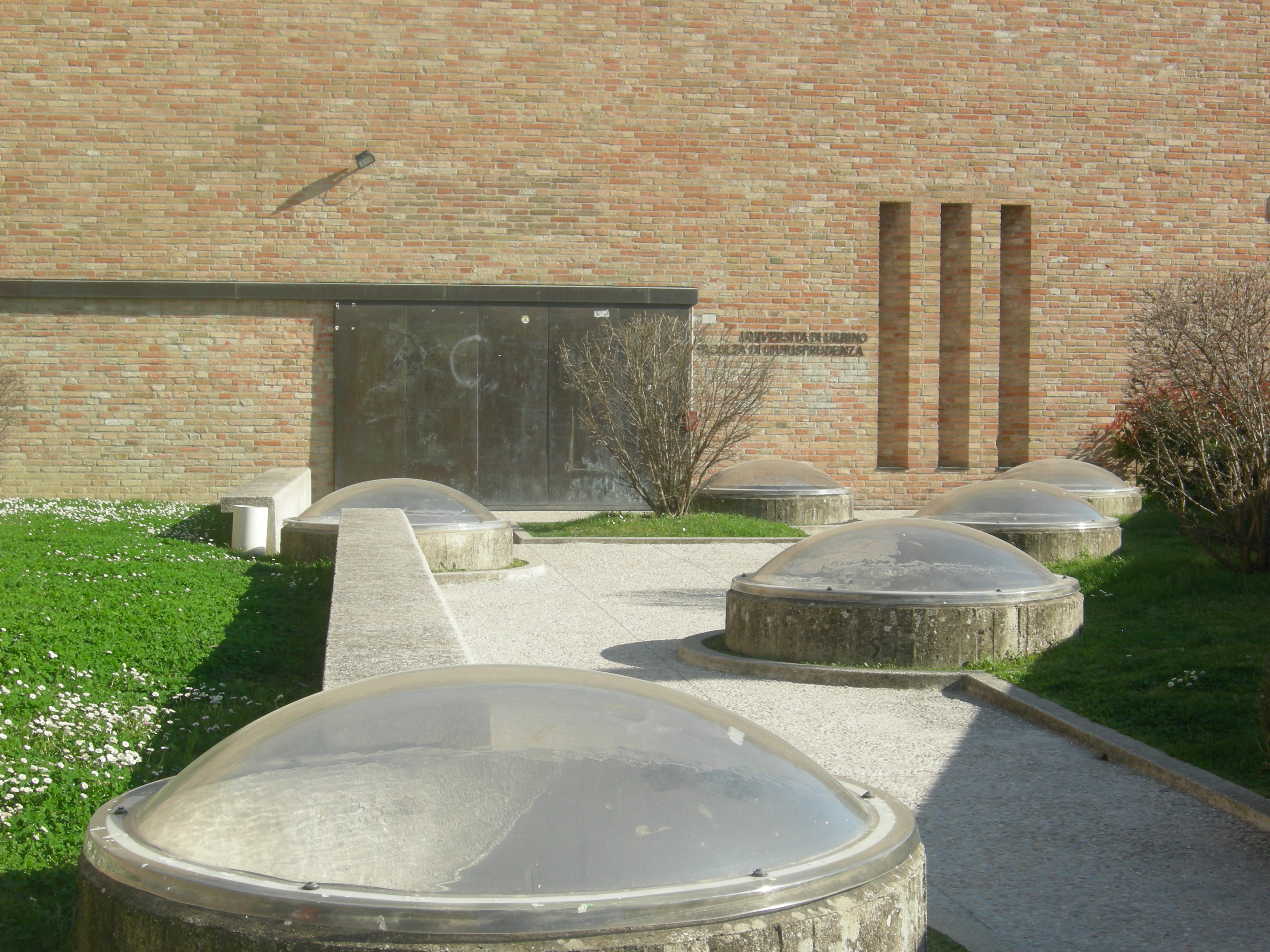 The school law of the University of Urbino in the former convent of St Augustine